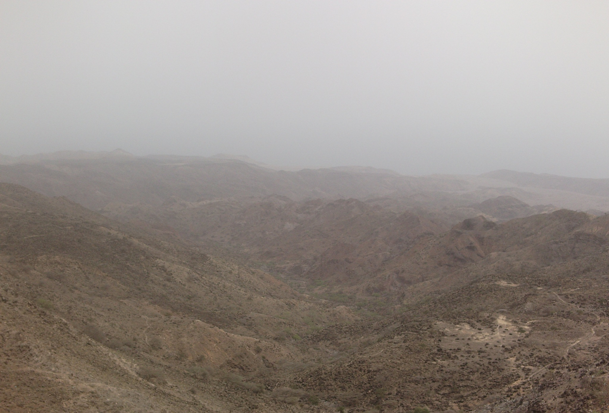 MountainsofArtageography